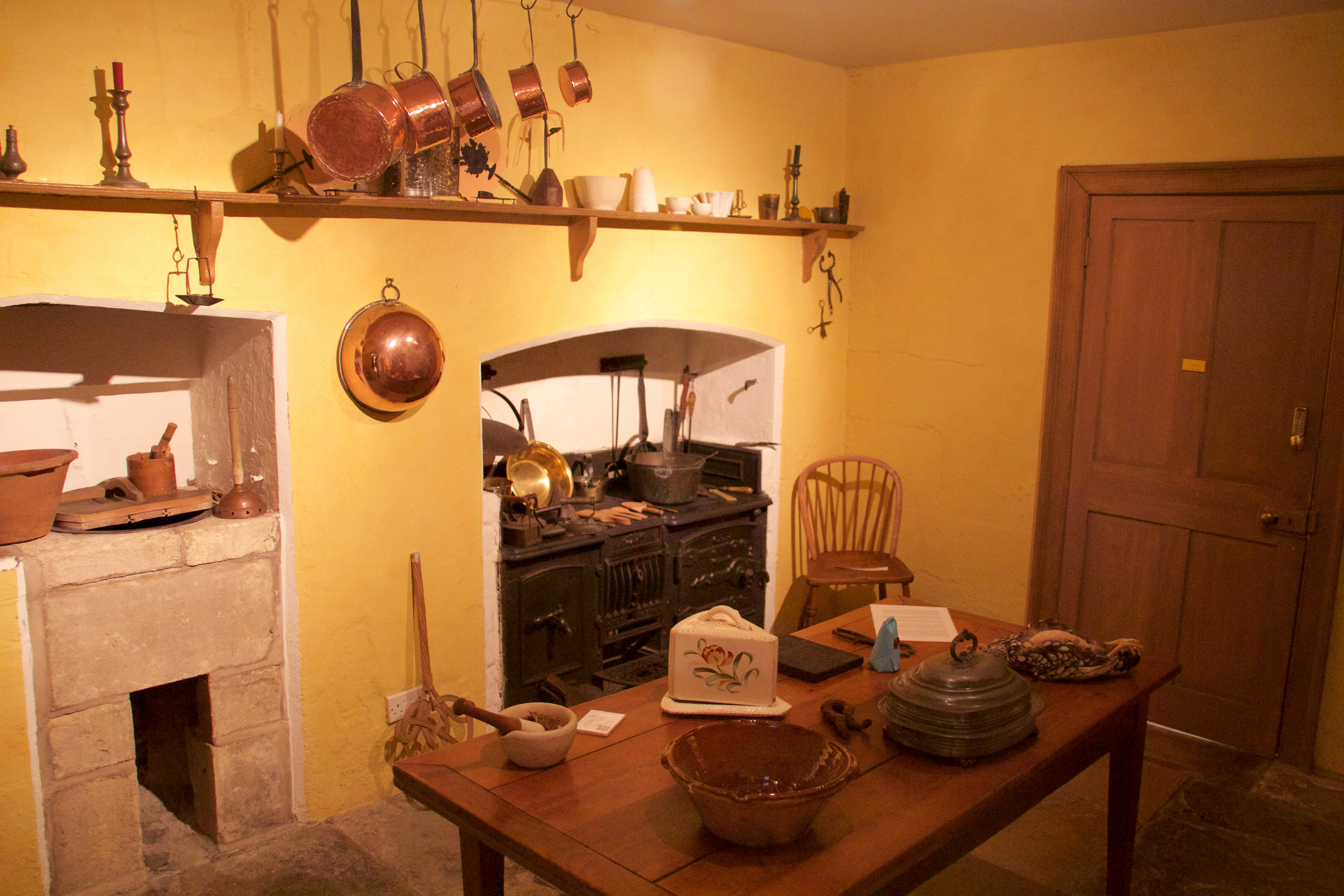 Kitchen at the William Herschel Museum, Bath.